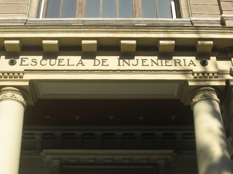 Entrance to the School of Engineering, Universidad de Chile